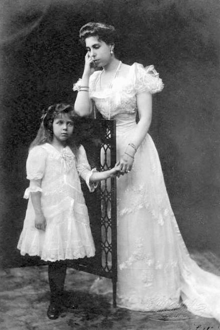 Victoria Melita of Edinburgh and her daughter Elisabeth Princess of Hesse